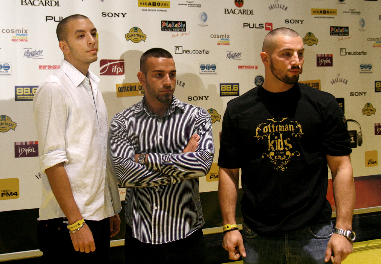 Sua Kaan at the Amadeus Austrian Music Award 2010 (Wiener Stadthalle, Vienna, Austria)